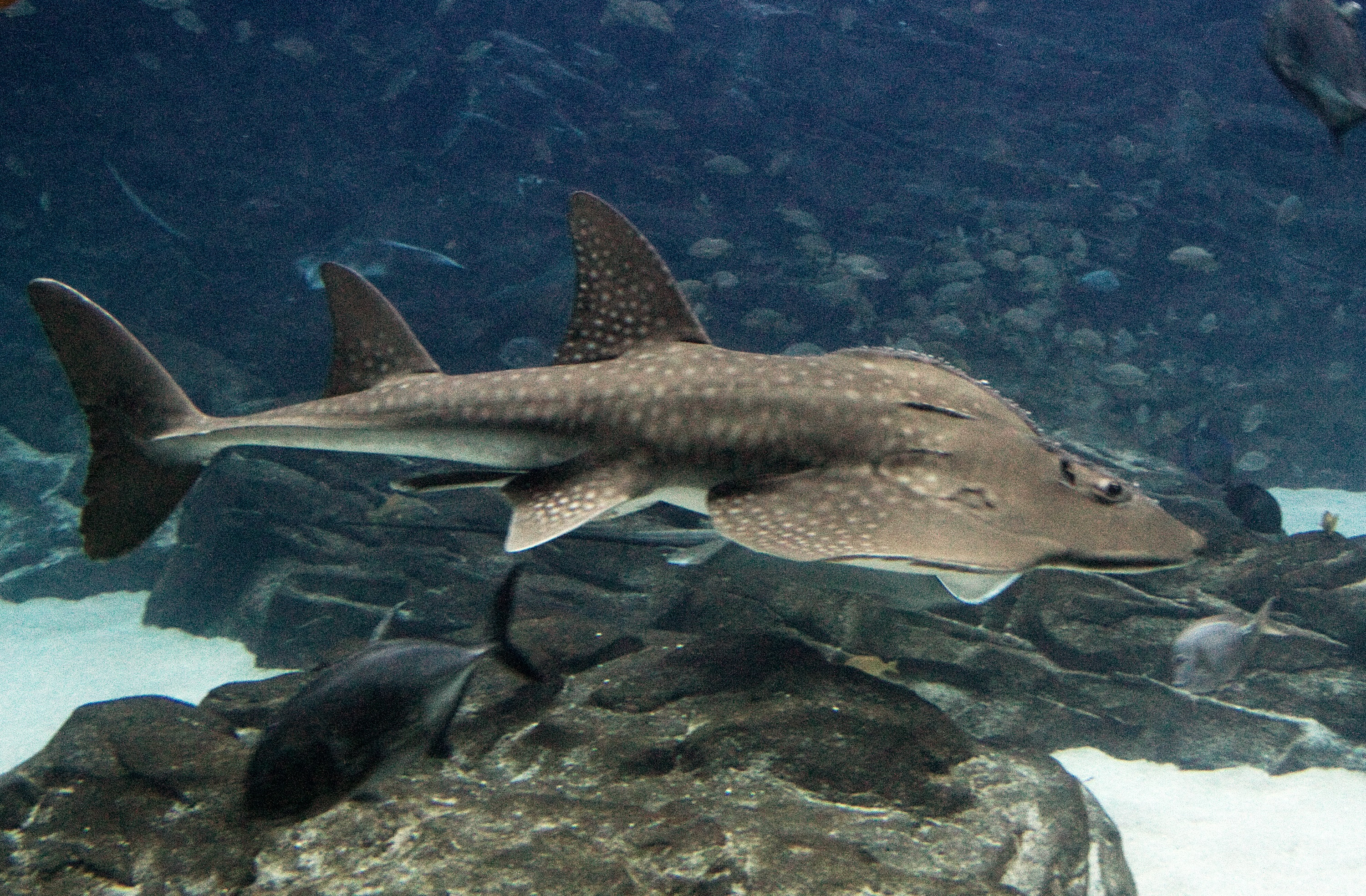 Bowmouth guitarfish (Rhina ancylostoma) at the Georgia Aquarium